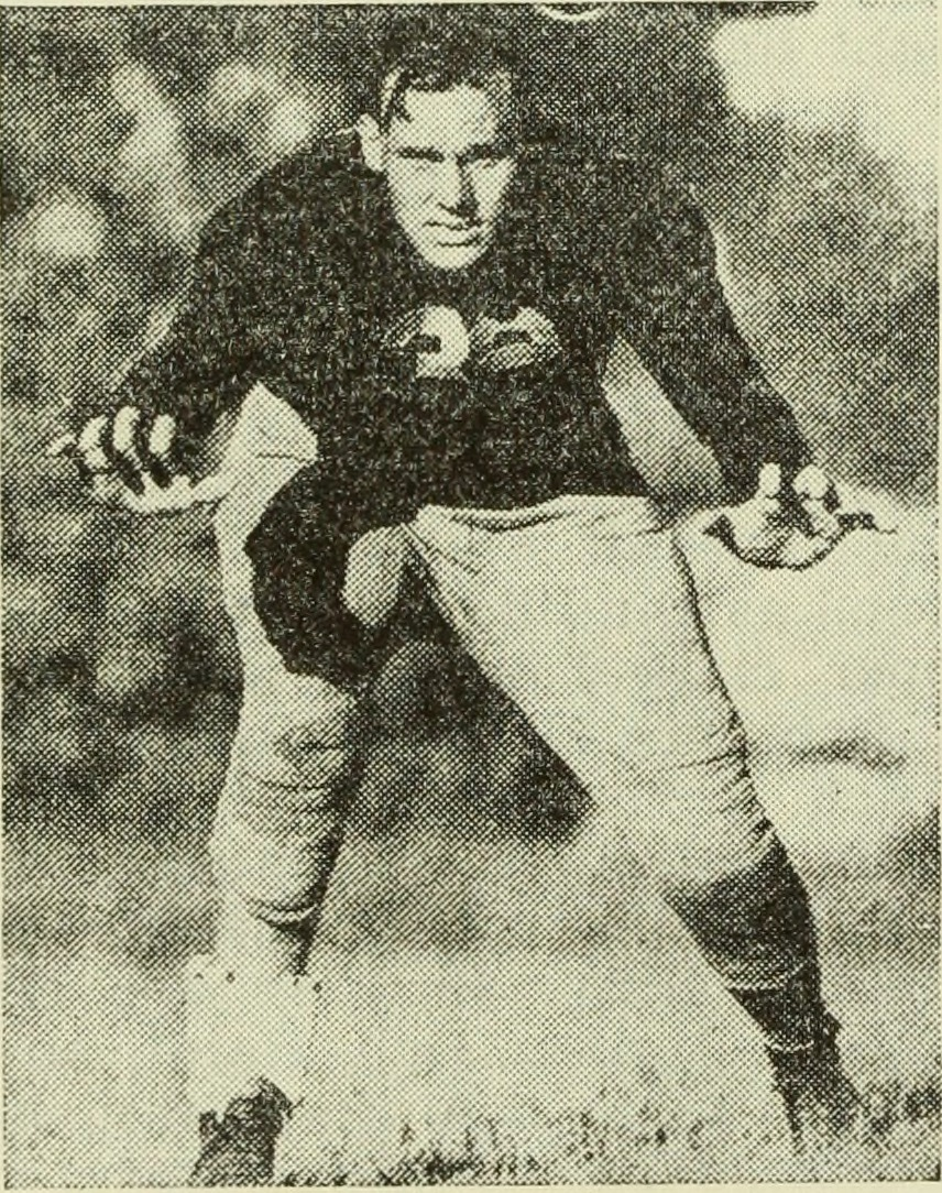 Buford Garfield "Baby" Ray, while a player at Vanderbilt University. He later played for the Green Bay Packers.